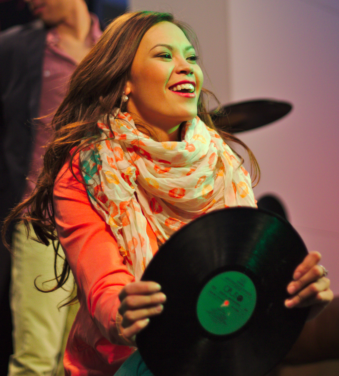 Monika Leová at Olympia Fashion Show 2013 (Brno)